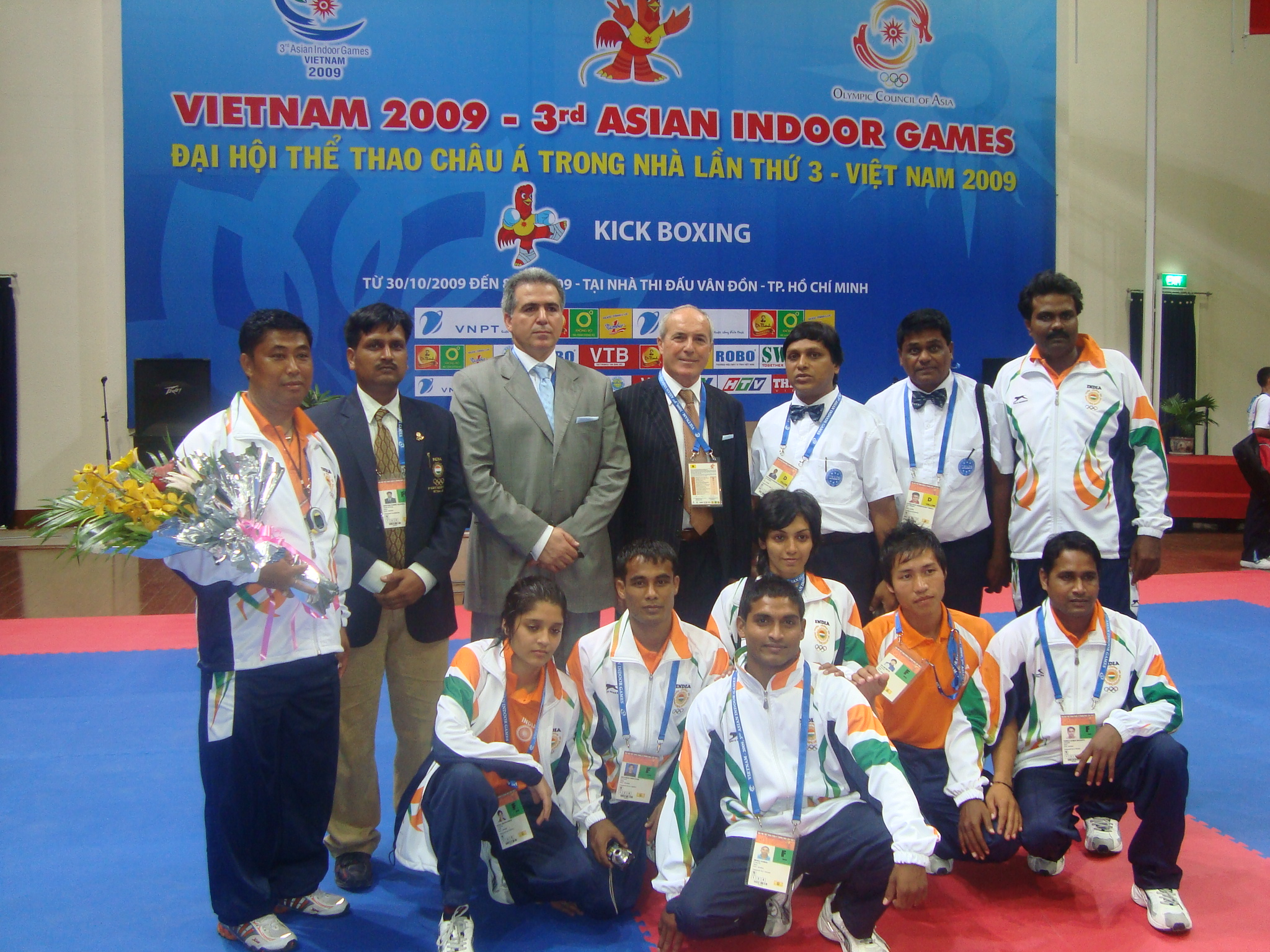 Indian Association Of Kickboxing Organisations. National Kickboxing Federation-Since 1993